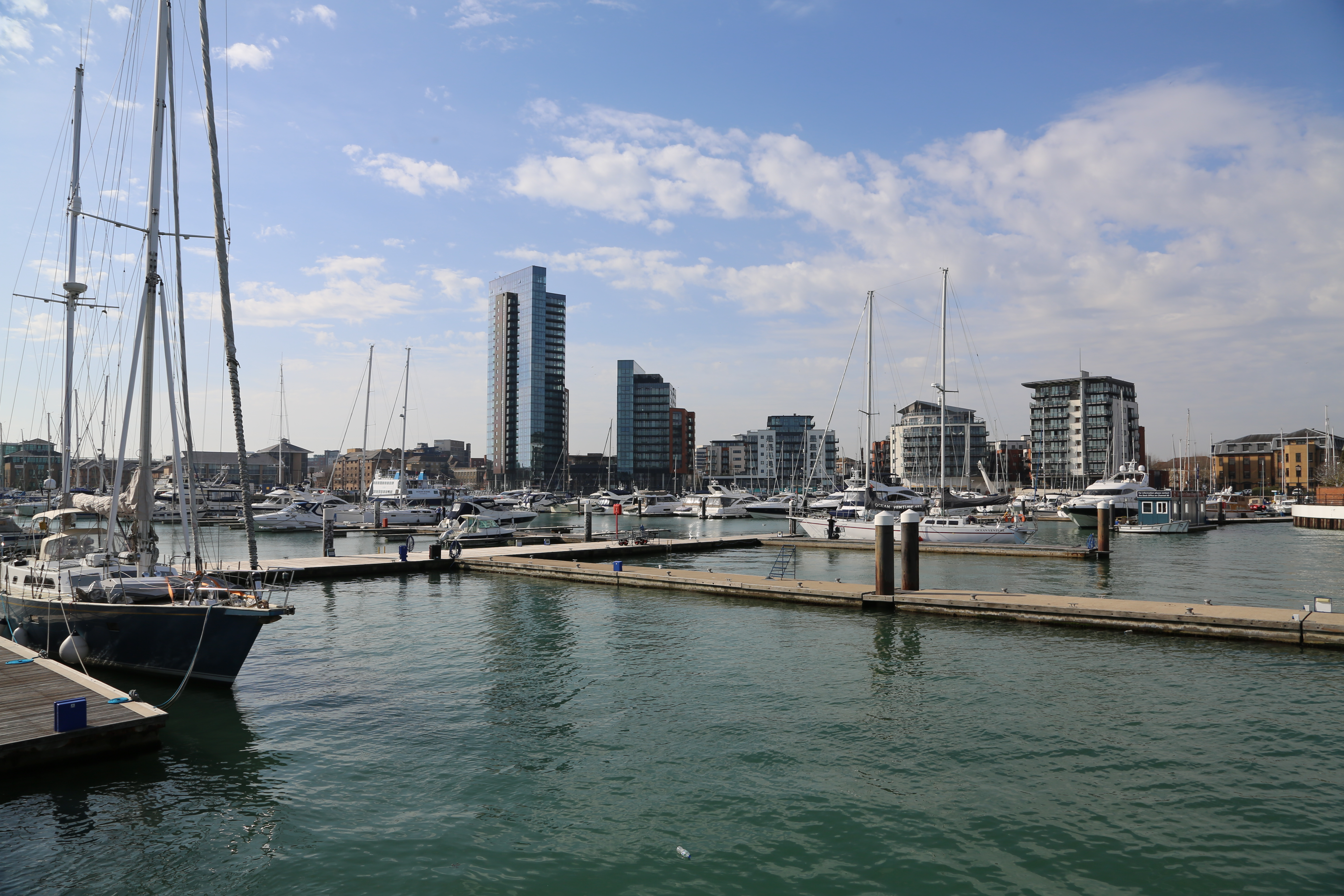 Photo of ocean village marina southampton looking towards Moresby Tower